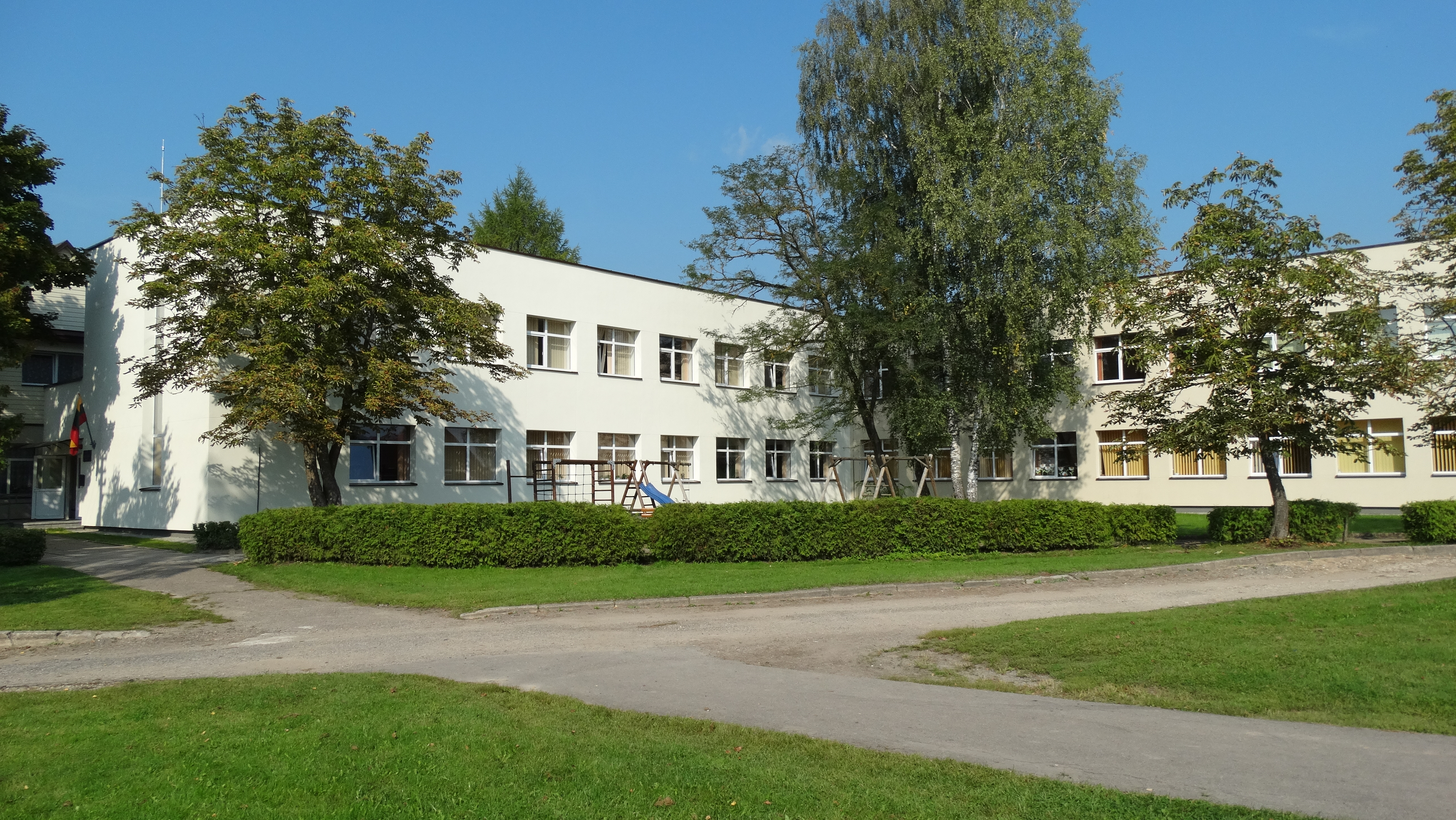 Basic school, Turmantas, Zarasai district, Lithuania